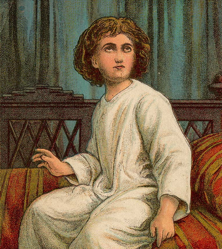 The Boy Samuel; as in 1 Samuel 3:1-21; illustration from a Bible card published by the Providence Lithograph Company